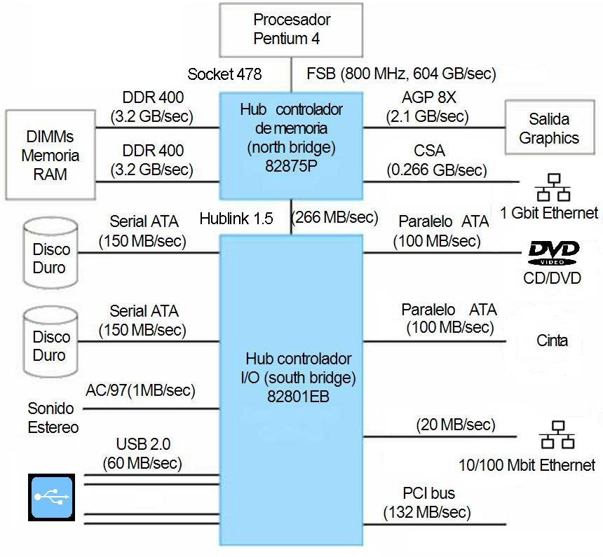 Schematic diagram of system base on chipset Intel 875p